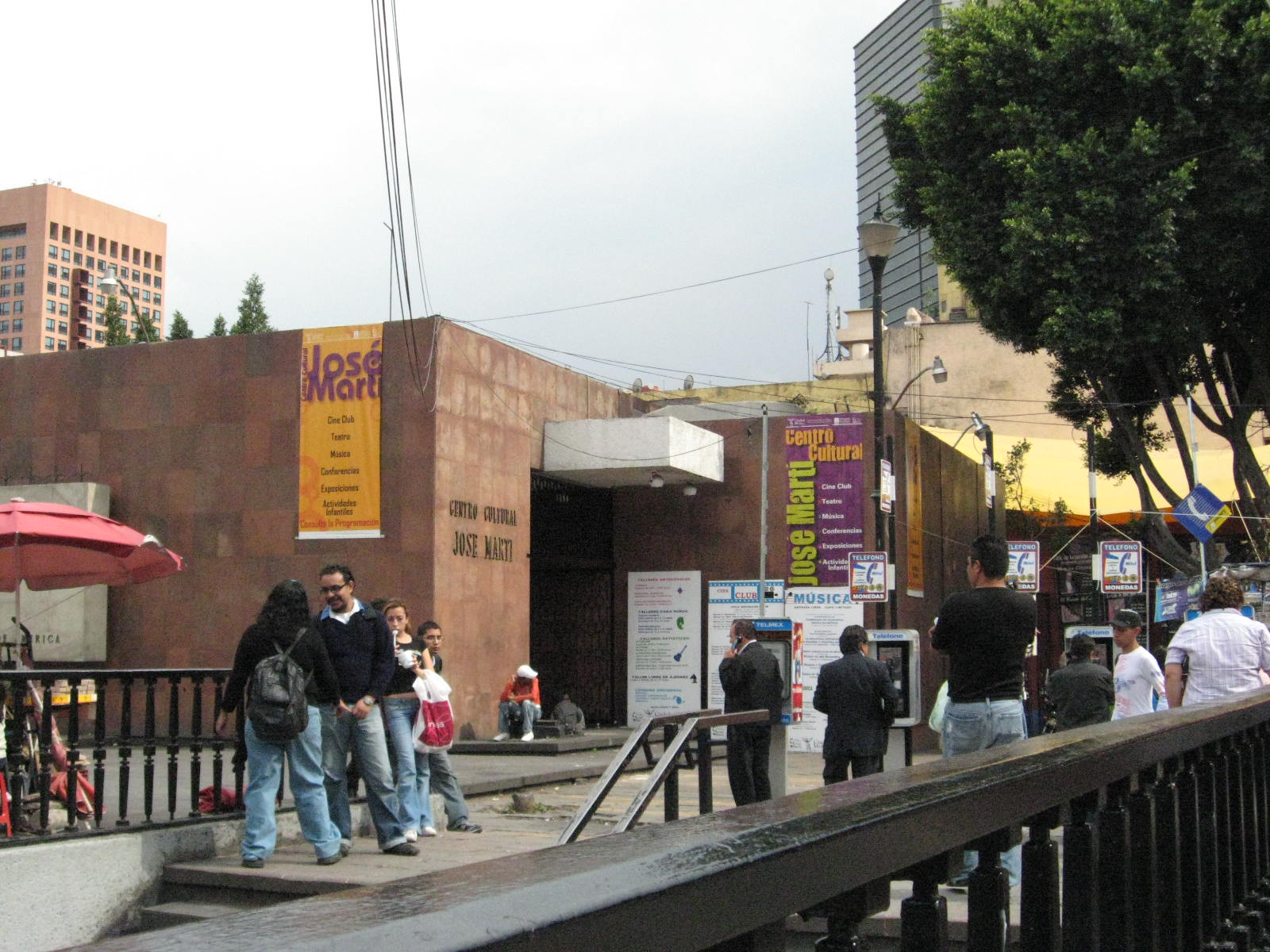 View of the Centro Cultural Jose Marti located near Metro Hidalgo in Mexico City